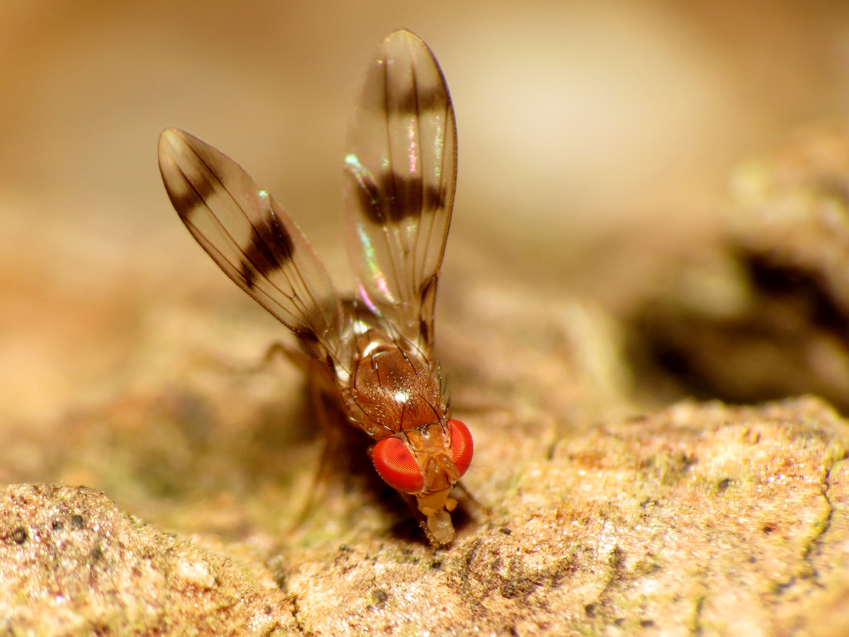 Chymomyza amoena. Rock Creek Park, Washington, DC, USA